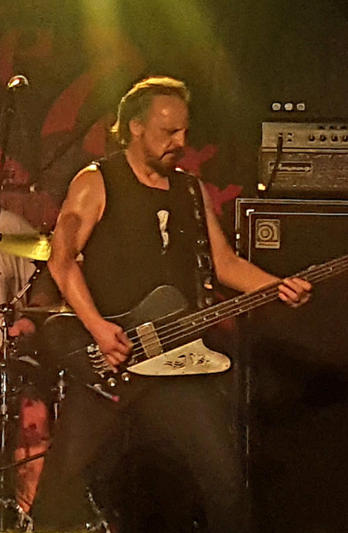 Mark Evans performing with Rose Tattoo, Birmingham, 11 September 2018